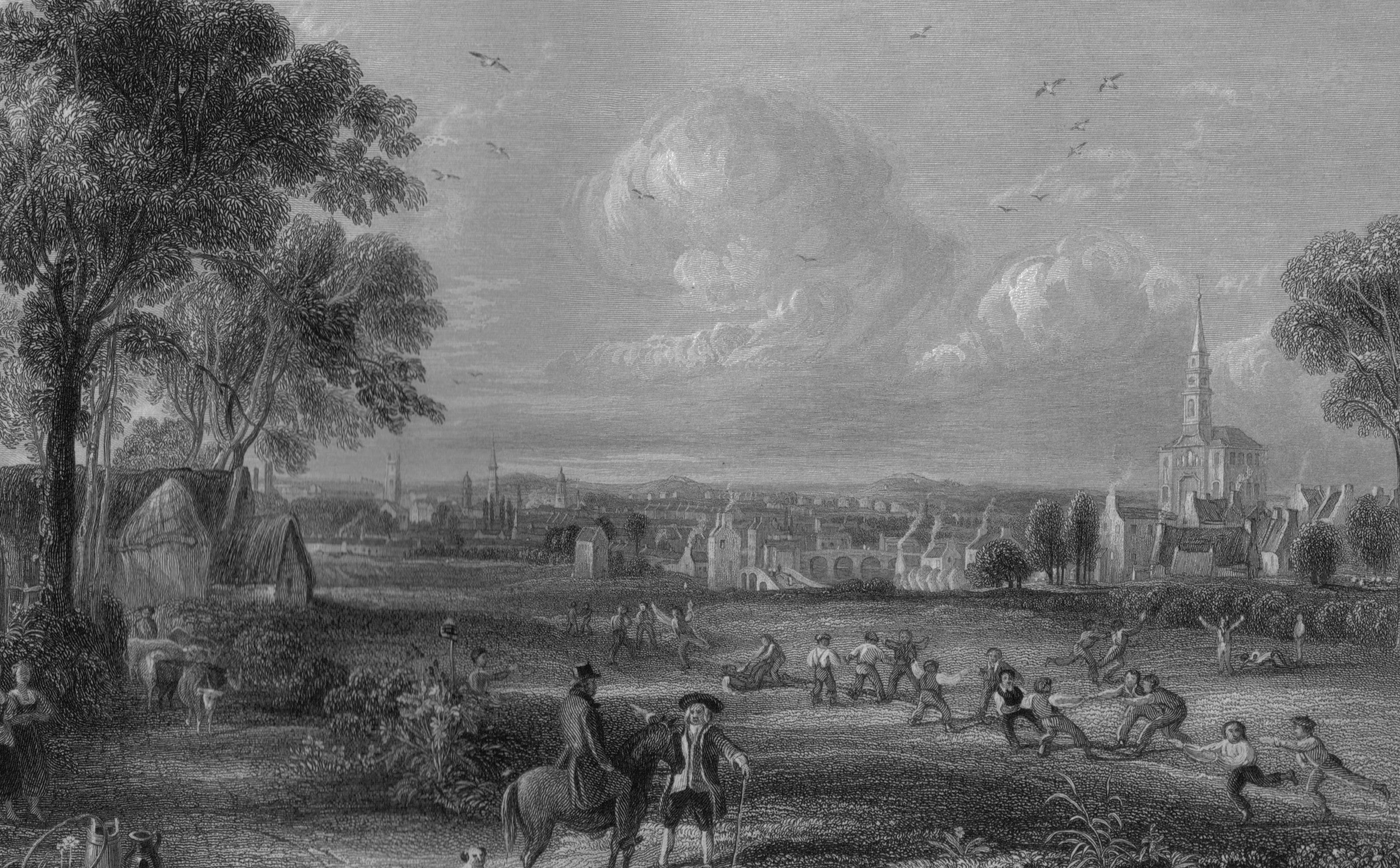 Riccarton in 1840. East Ayrshire, Scotland.